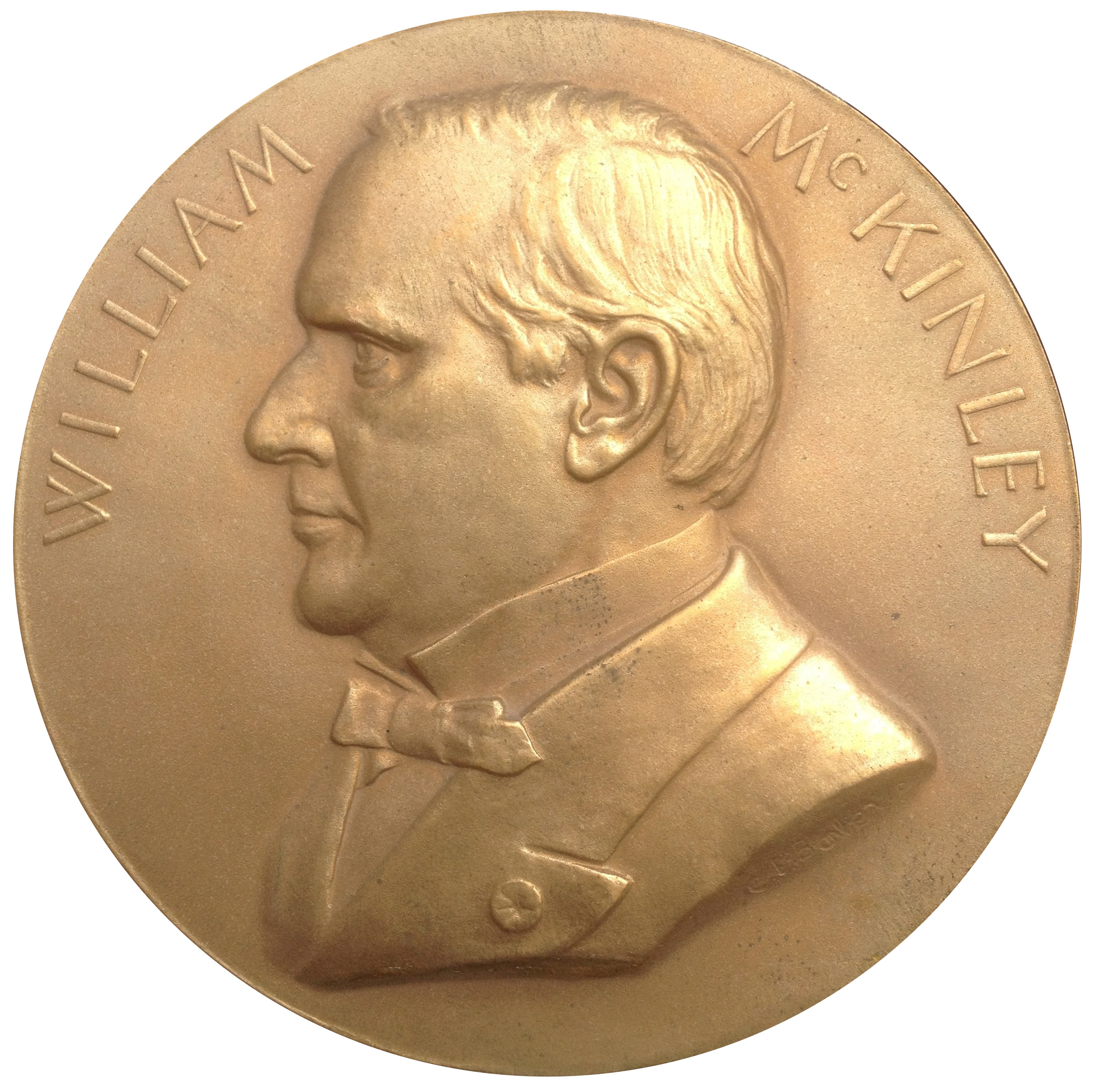 William McKinley memorial medal, later used as his entry in the Mint's Presidential Series of medals.